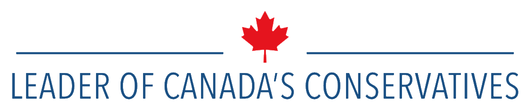 Logo of the Leader of the Conservative Party of Canada